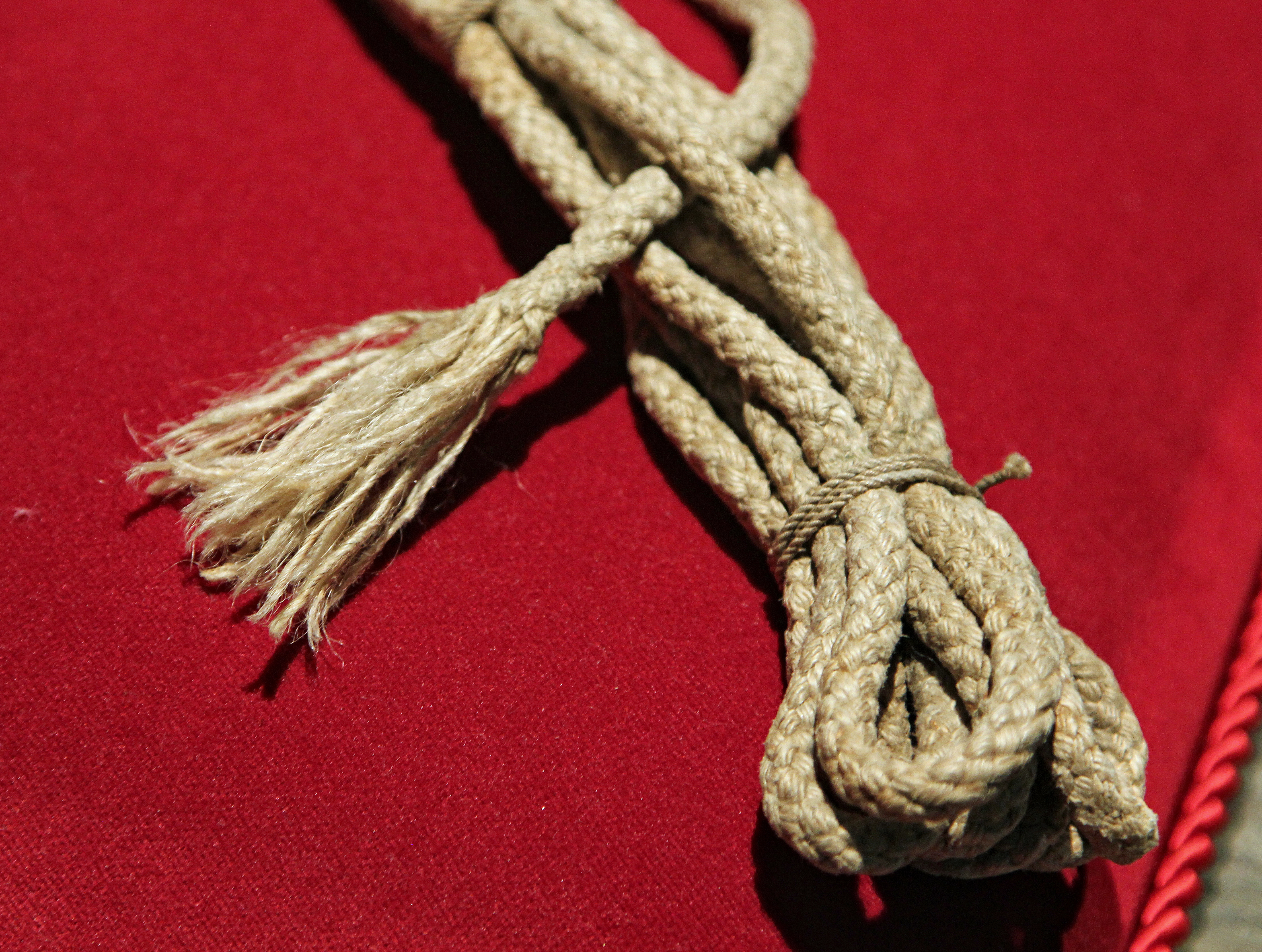 The Matterhorn Museum "Zermatlantis" is located in Zermatt in the canton of Valais in Switzerland. It shows the development of Zermatt from the mountain farming village to the world-famous tourist destination as well as the history of the first ascent of the Matterhorn from 14 July 1865.